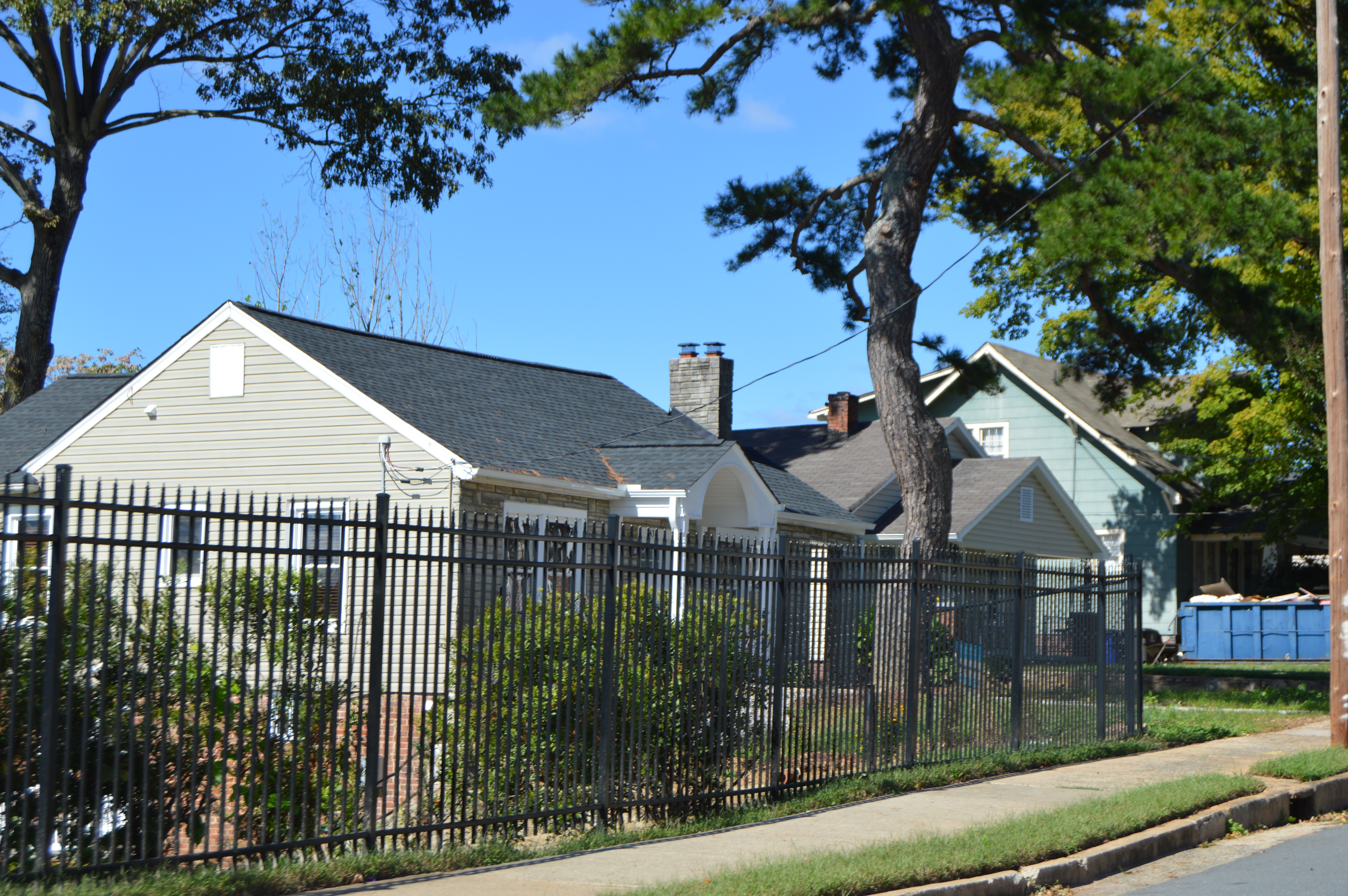 Houses at 1436 and 1440 N. Cherry Street in Winston-Salem, North Carolina, United States. This block is part of the North Cherry Street Historic District, a historic district that is listed on the National Register of Historic Places.